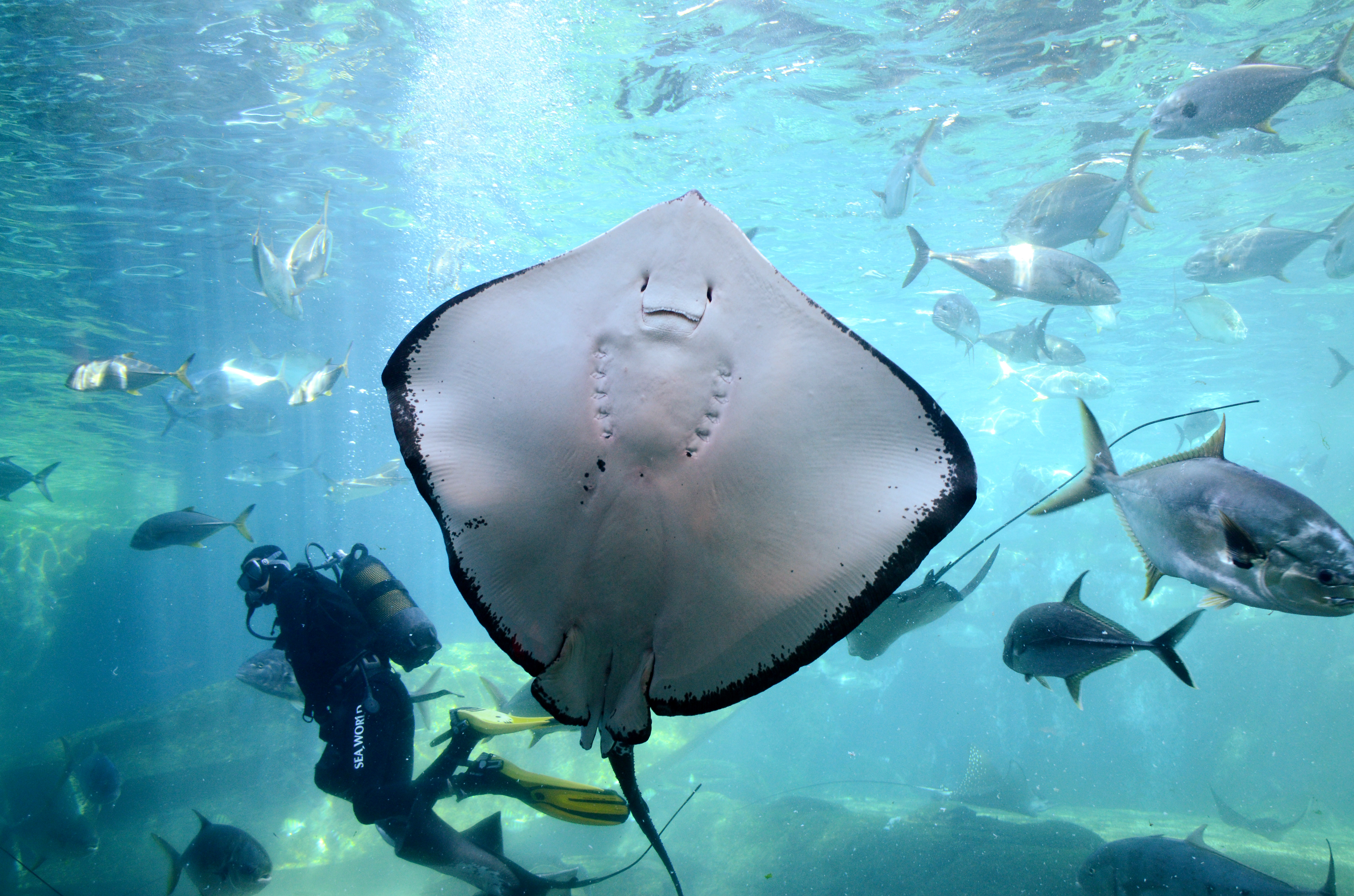 Dasyatis brevicaudata (short-tail stingray or smooth stingray) in uShaka Sea World